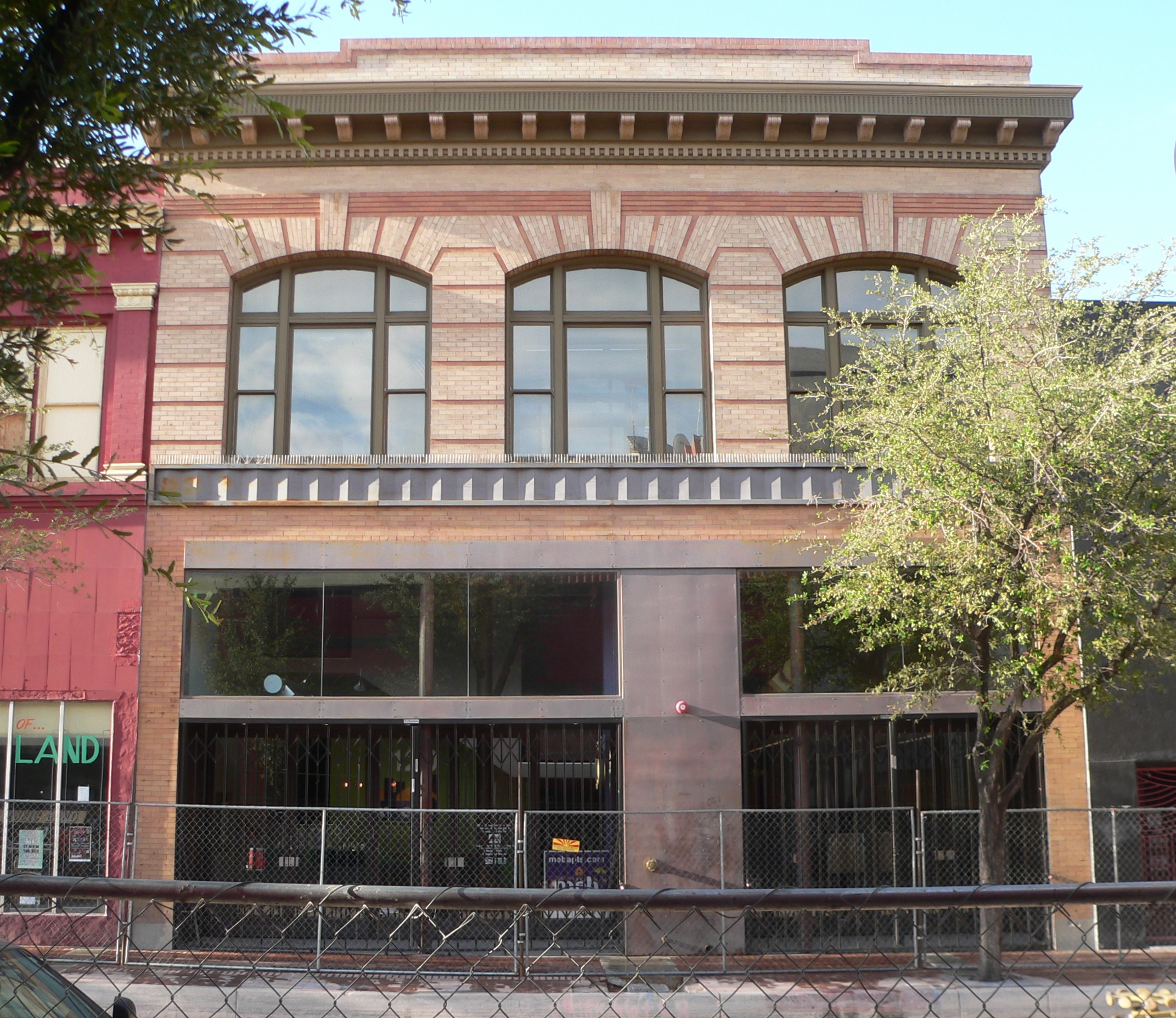 First Hittinger Block, located at 120 E. Congress Street in Tucson, Arizona.